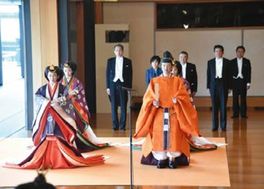 Imperial Family at Ceremony of the Enthronement of His Majesty the Emperor at the Seiden